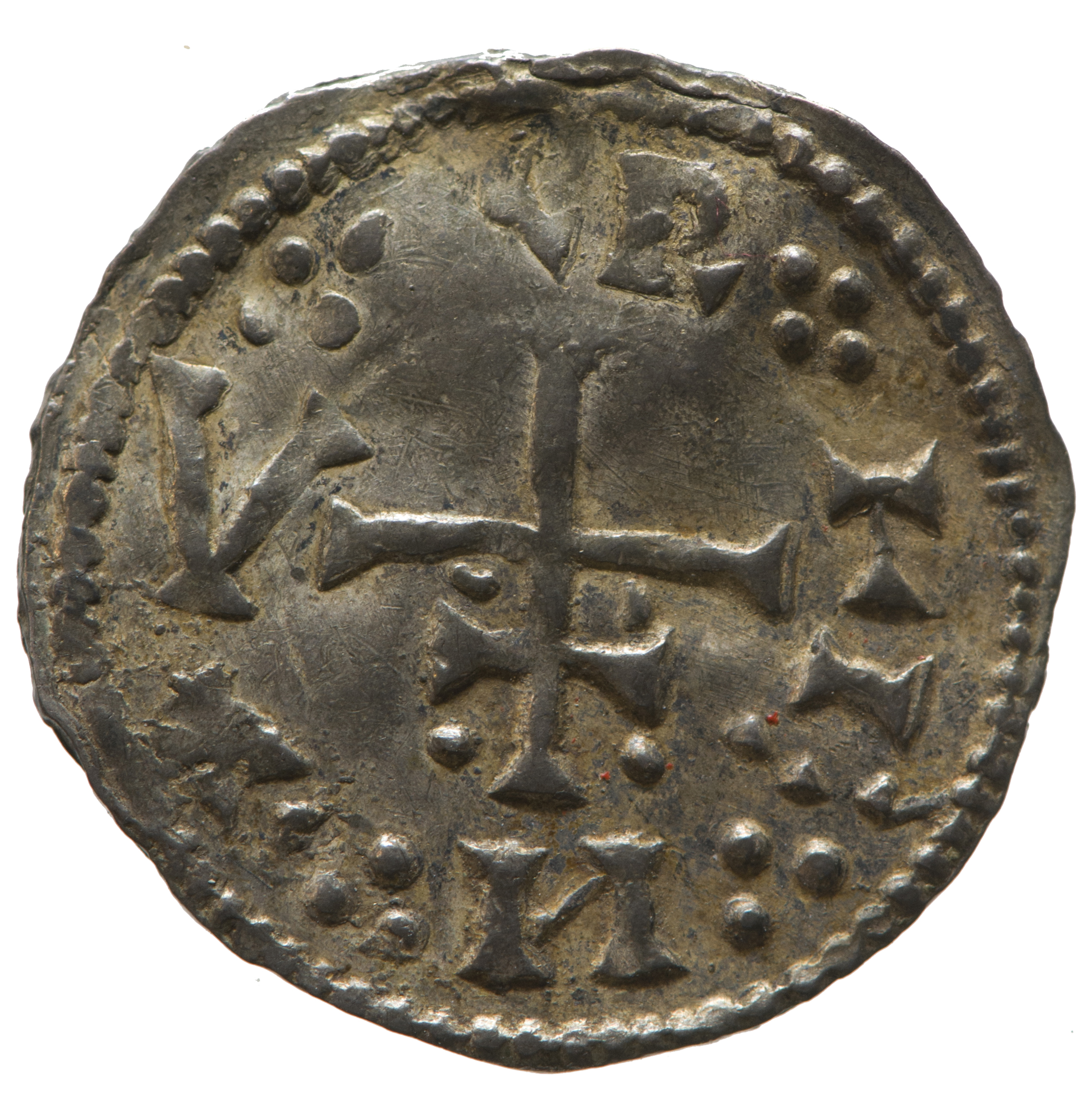 Obverse (front) of a silver penny of Cnut_of_Northumbria Small cross pellets at two angles, groups of pellets as stops in legend